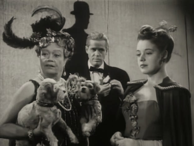 L. to R. : Esther Howard, Dan Duryea & Mary Beth Hughes in The Great Flamarion - cropped screenshot